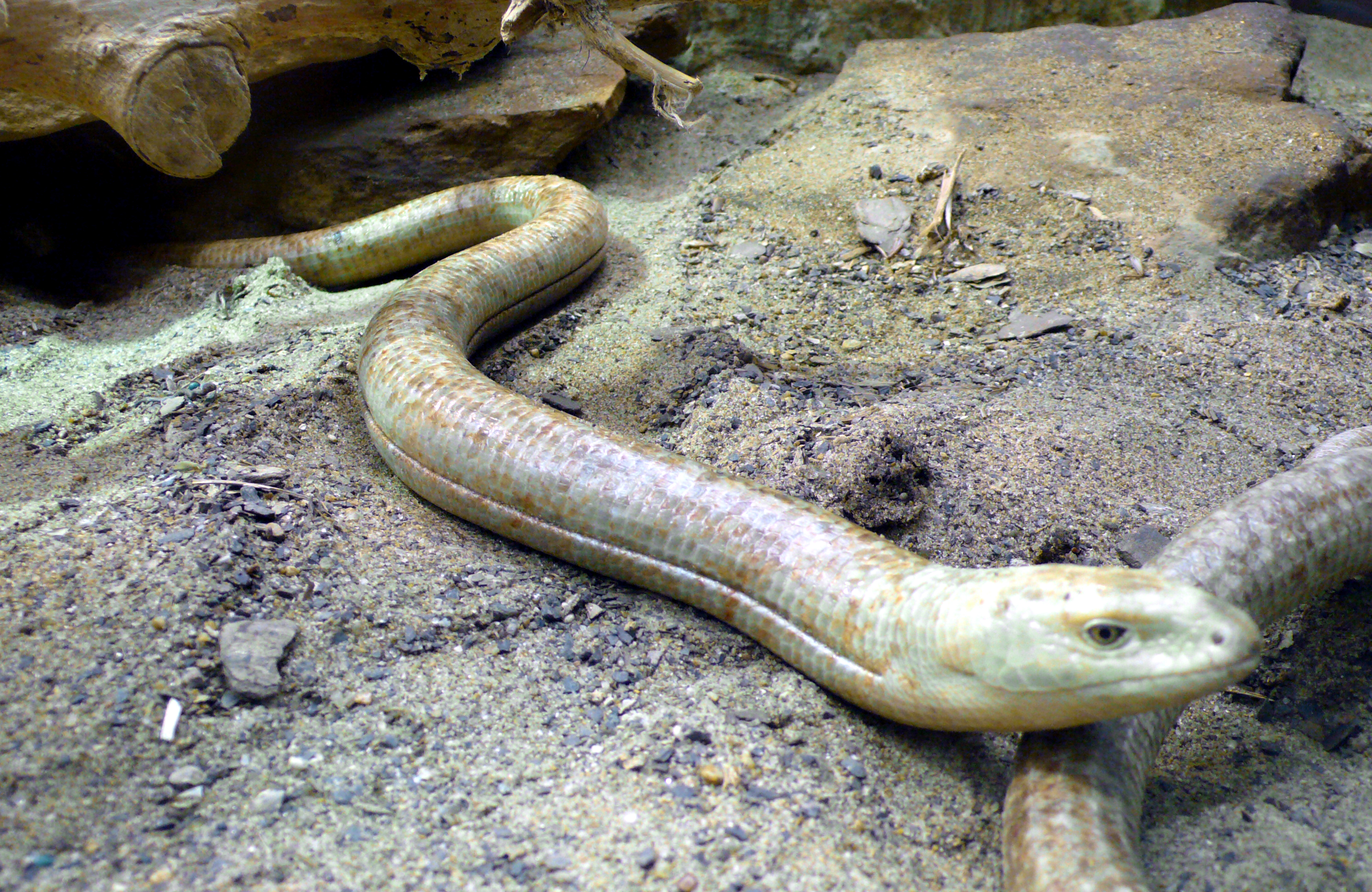 Scheltopusik or European Legless Lizard (Ophisaurus apodus)